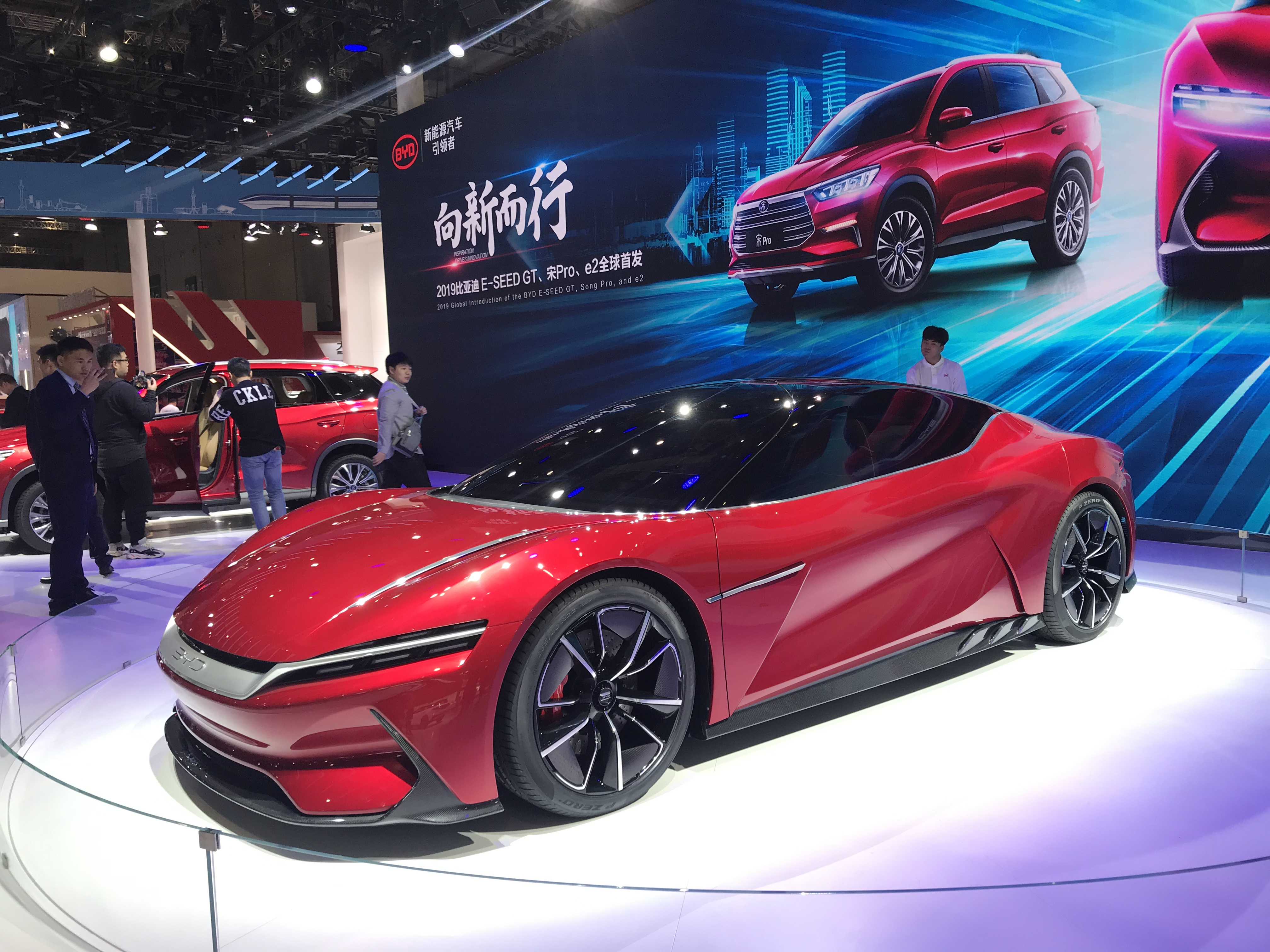 BYD Han front